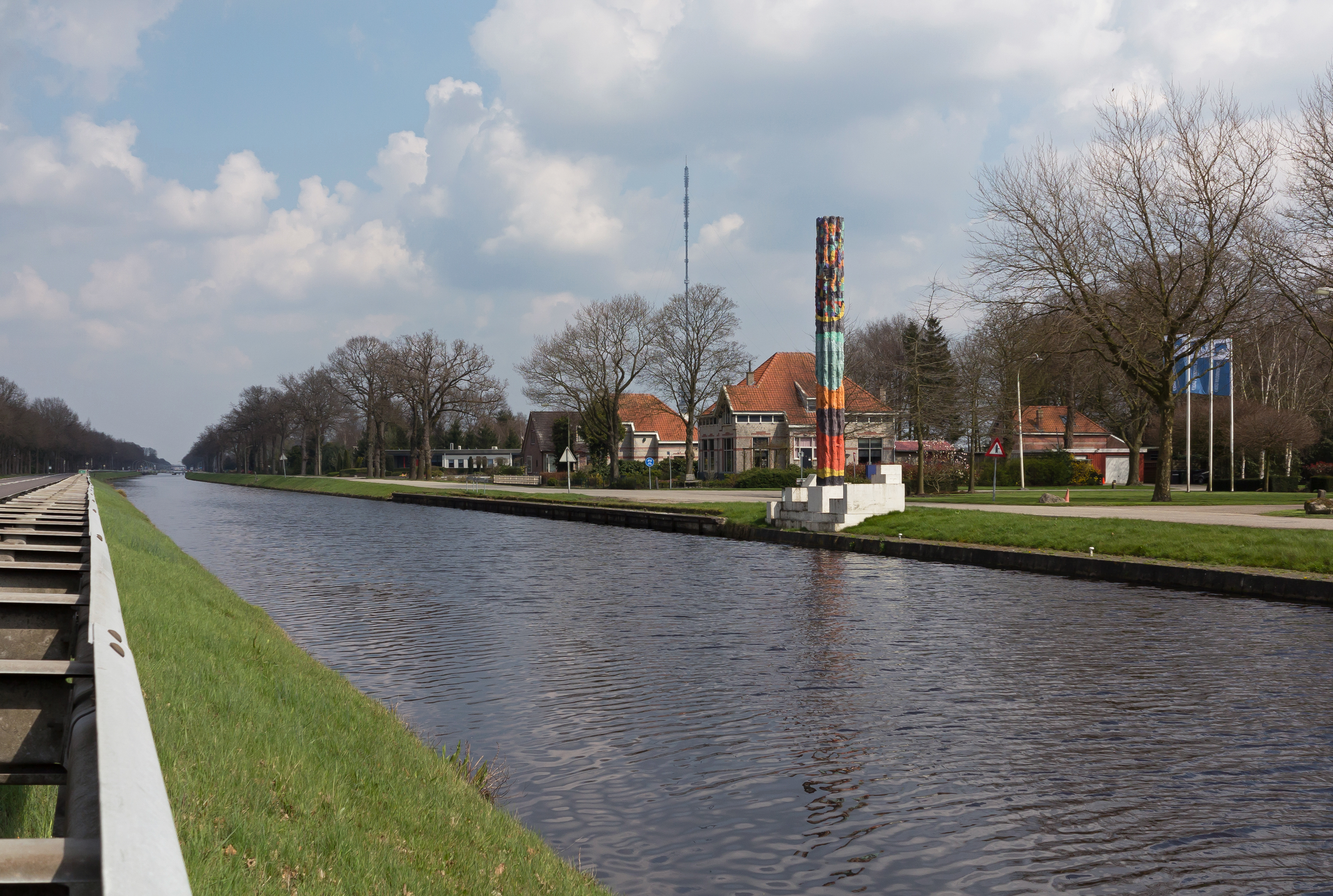 Hoogersmilde, street art near entry of factory